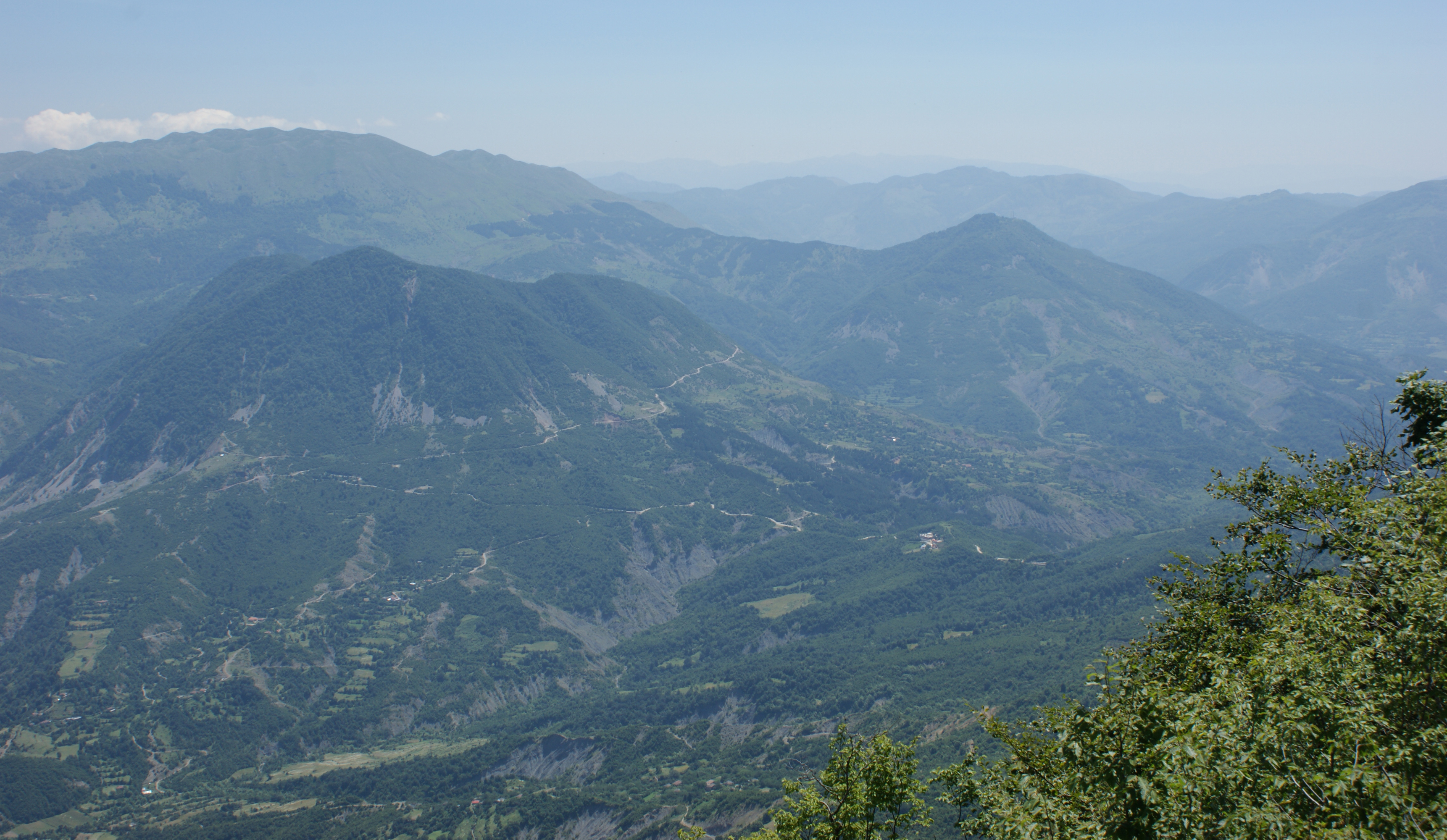 The mountains behind Mount Dajti seen from Maja e Tujanit.